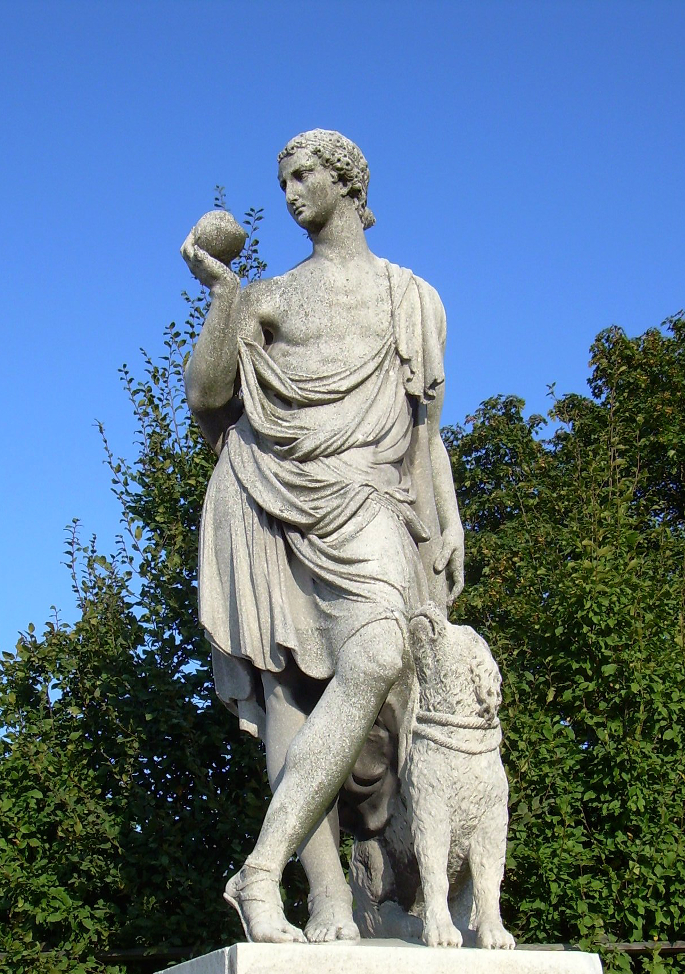 Paris in the Schönbrunn Garden